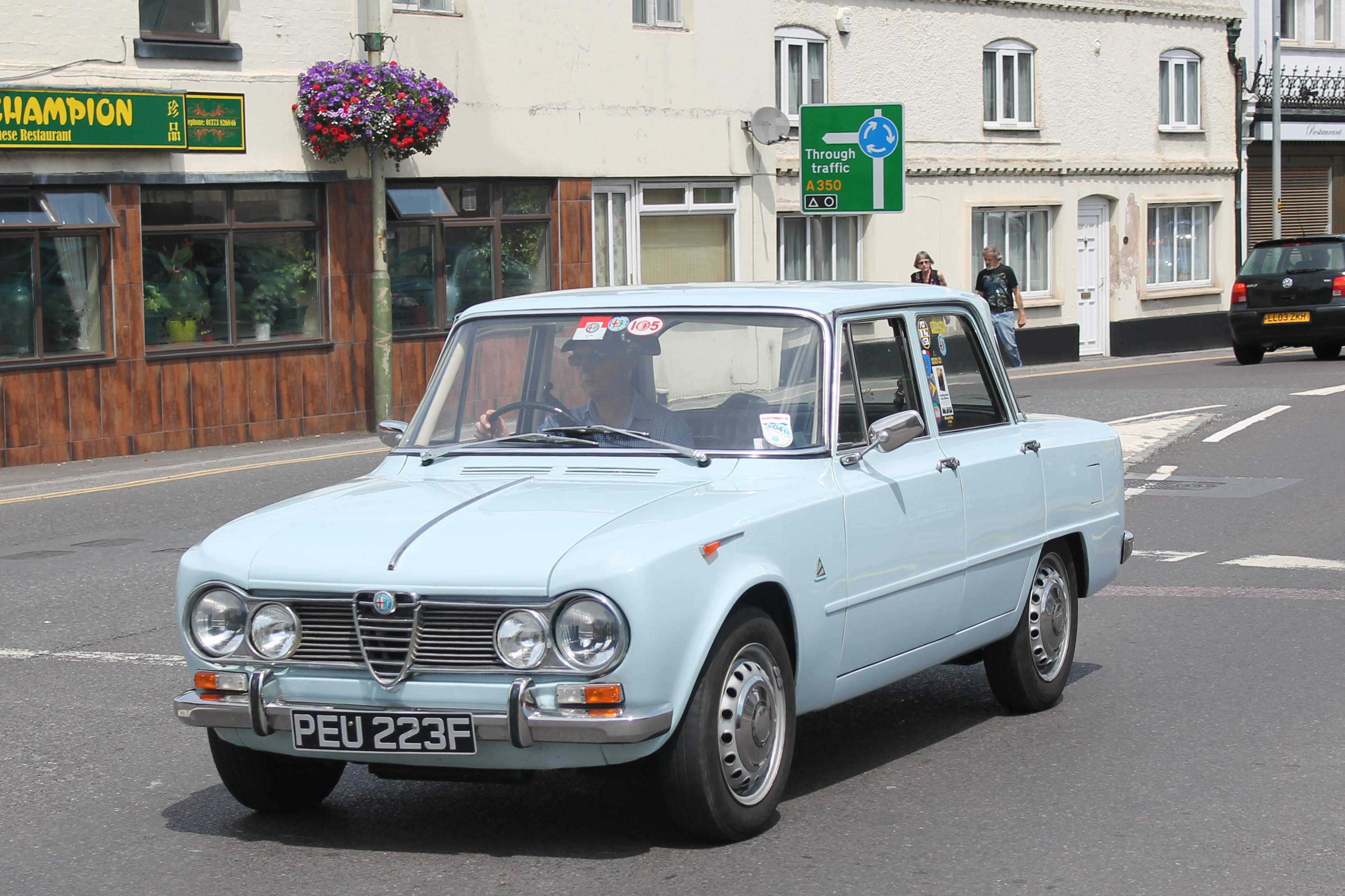 Bit of a beauty coming down the road towards me, this was a really nice looking old Alfa. This one was imported in 2000, but is interesting as it's right hand drive. Registration number: PEU 223F ✔ Taxed Expires: 01 May 2015 ✔ MOT Expires: 11 July 2015 Vehicle make :ALFA ROMEO Date of first registration :03 May 2000 Year of manufacture :1967 Cylinder capacity (cc) :1570cc CO₂Emissions :Not available Fuel type :PETROL Export marker :No Vehicle status :Tax not due Vehicle colour :BLUE Vehicle type approval :Not available